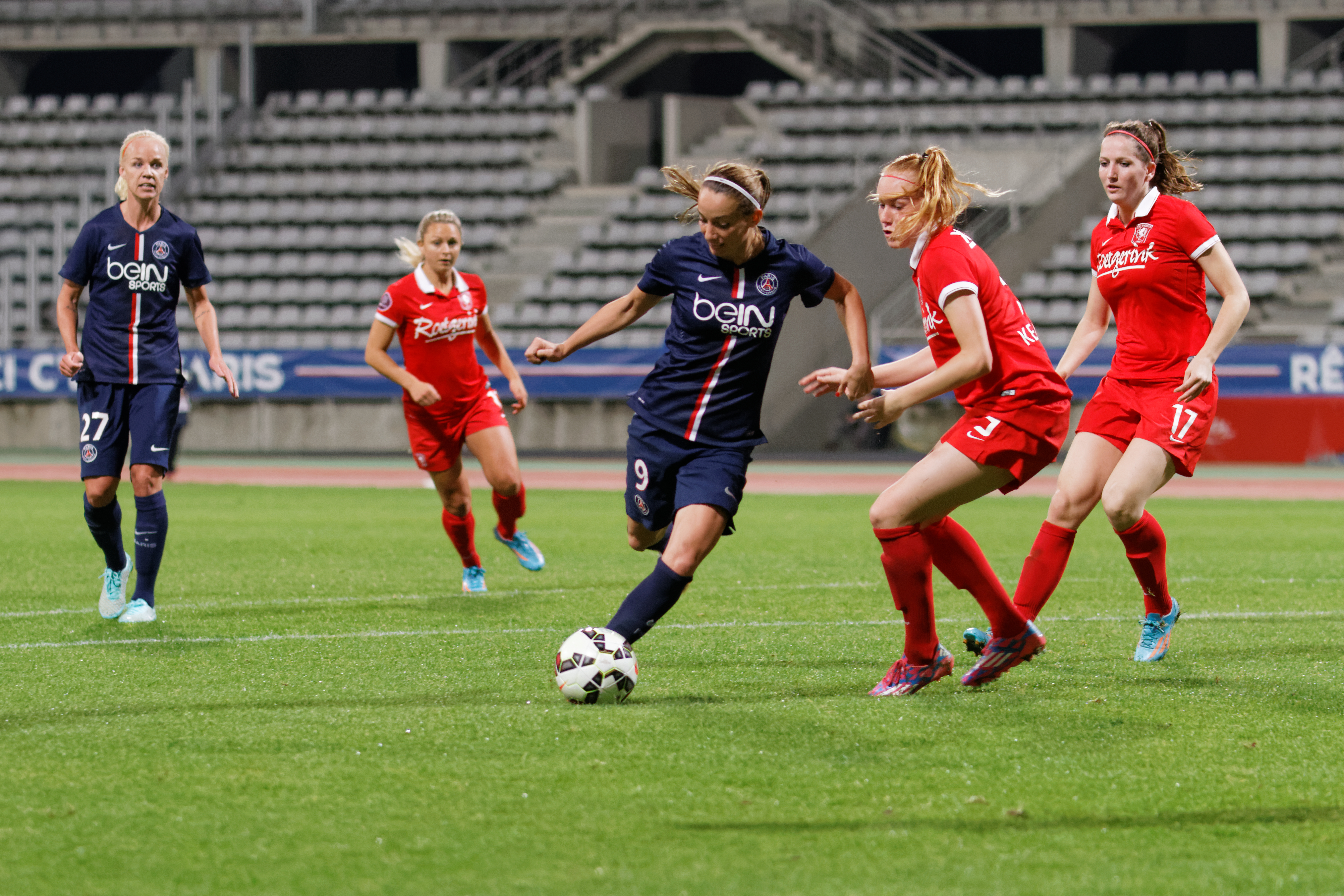 UEFA Women's Champions League, PSG - Twente, 15 October 2014. Kosovare Asllani and Danique Kerkdijk.